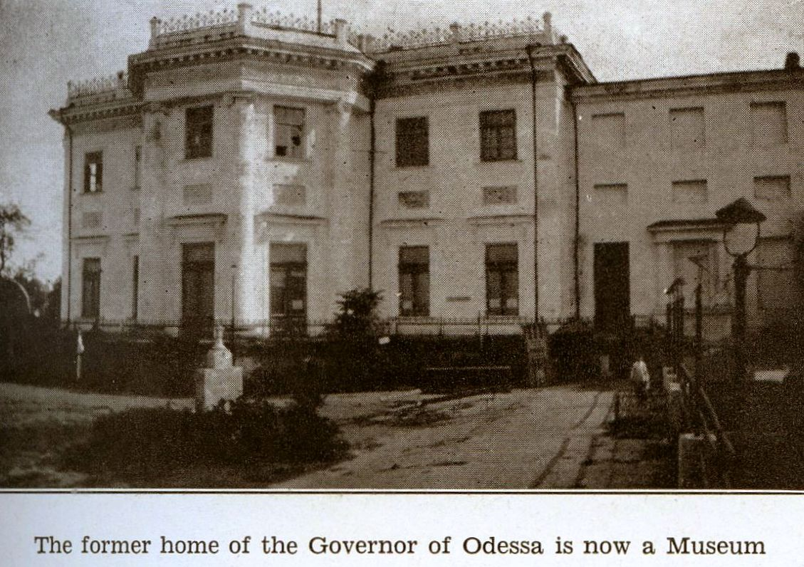 Scanned photoimage from book by Gerald O. Dykstra A Belated Rebuttal on Russia, published in 1927.